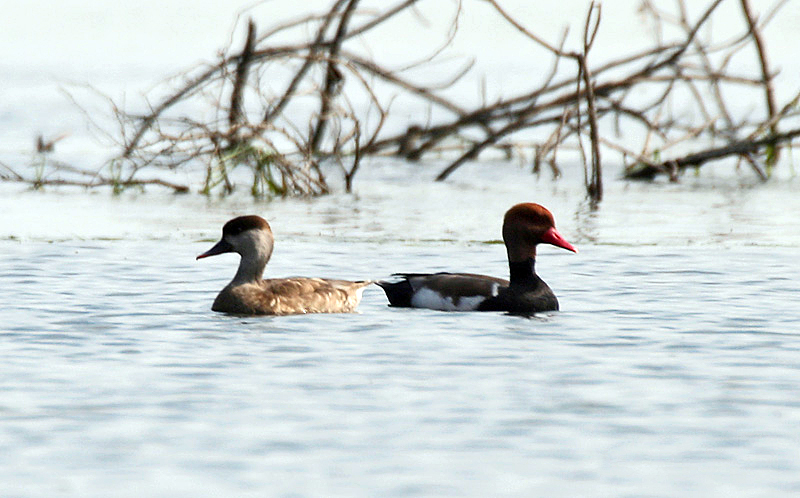 Red-crested Pochard Netta rufina at Purbasthali, in Bardhaman, District of West Bengal, India.